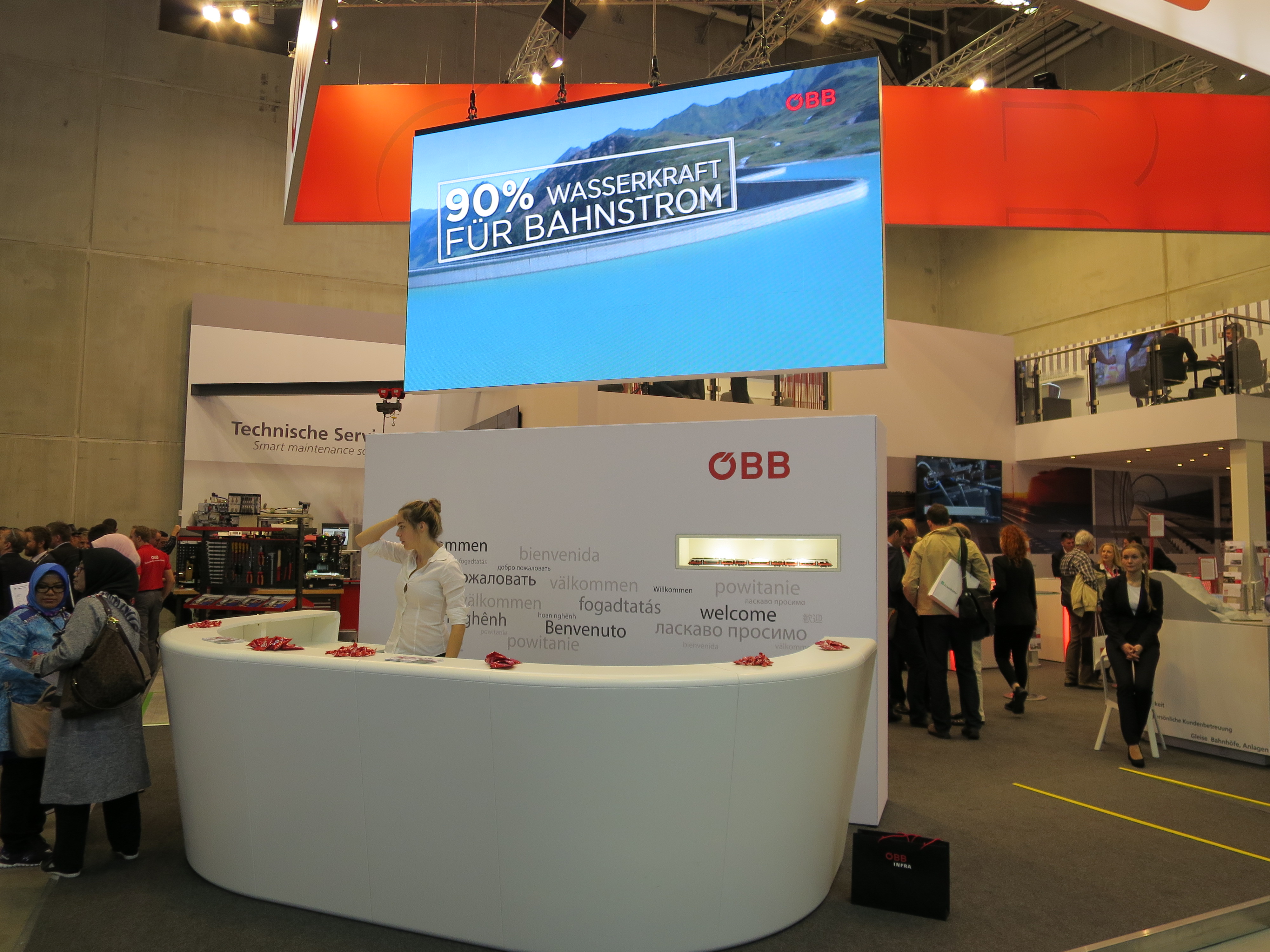 InnoTrans 2016 The making of this document was supported by Wikimedia Polska Association, within Wikigrant no. WG 2016-35.